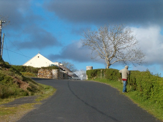 Cutting the hedge. A sunny day, but the wind was cold, as the worker's hood will attest.